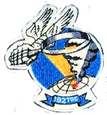 192d Tactical Reconnaissance Squadron - Legacy emblem.